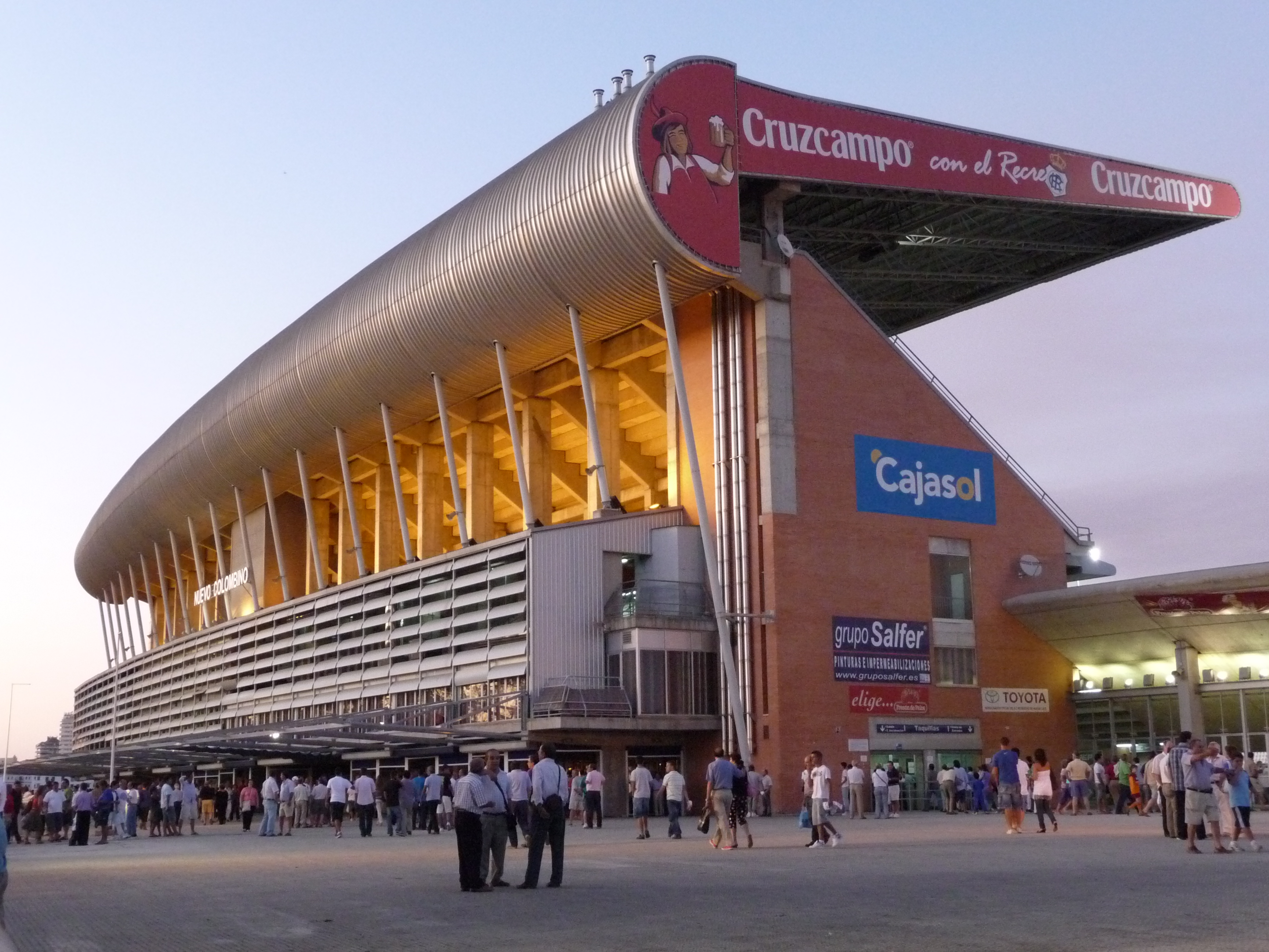 Nuevo Colombino Stadium. Huelva, Spain.